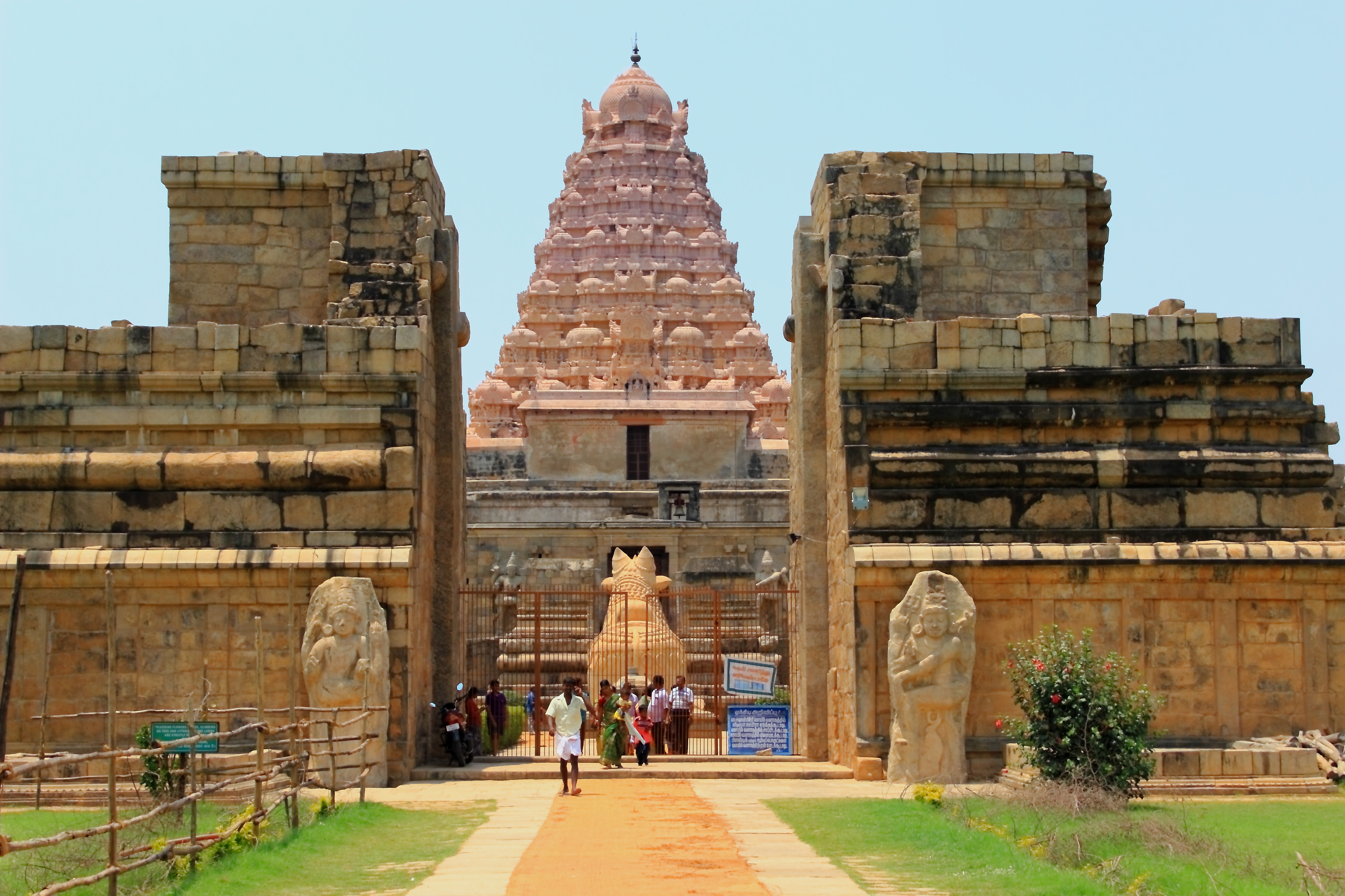 Gangaikondacholapuram Temple